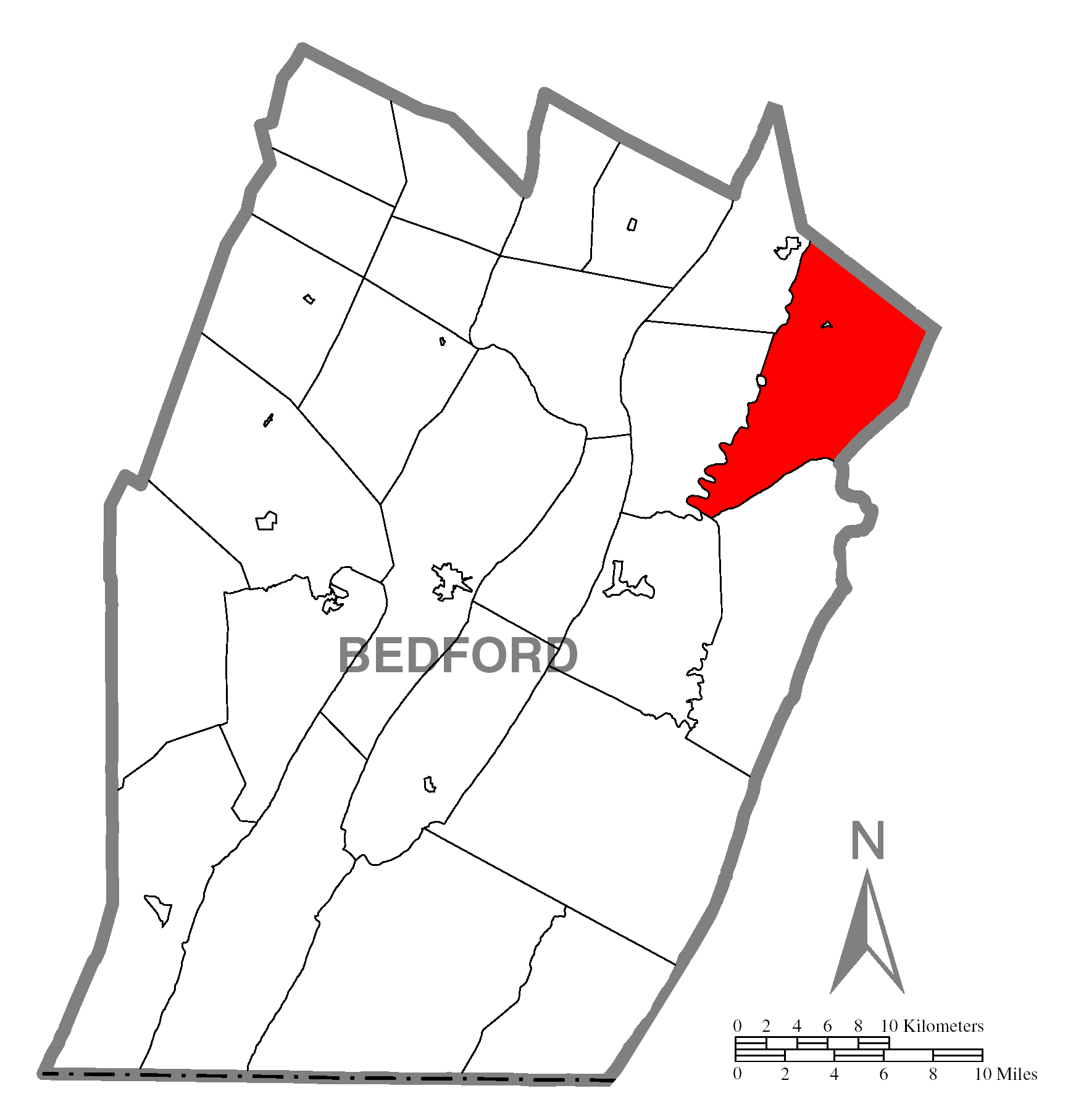 A map of Bedford County showing Broad Top Township, Pennsylvania (alternate) highlighted on the map.